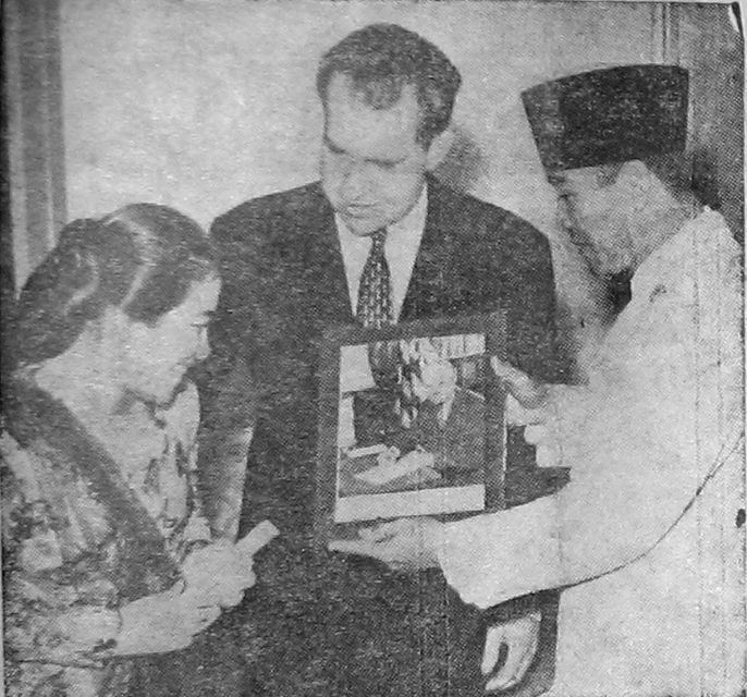 Sukarno and Fatmawati looking at a picture of Dwight D. Eisenhower held by Richard Nixon